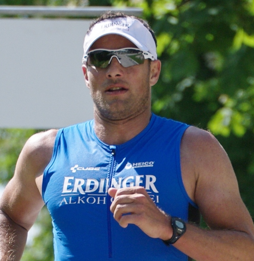 German triathlete Lothar Leder in the Ironman 70.3 Austria on 20 May 2012 in St. Pölten.